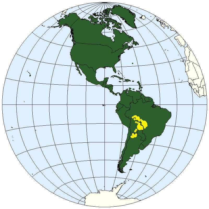 Map of the natural habitats of Phyllomedusa boliviana. Argentina, Bolivia, and Brazil (west of Mato Grosso and Rondônia states).